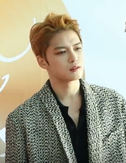 Kim Jaejoong at the Golden Disc Awards, 2017